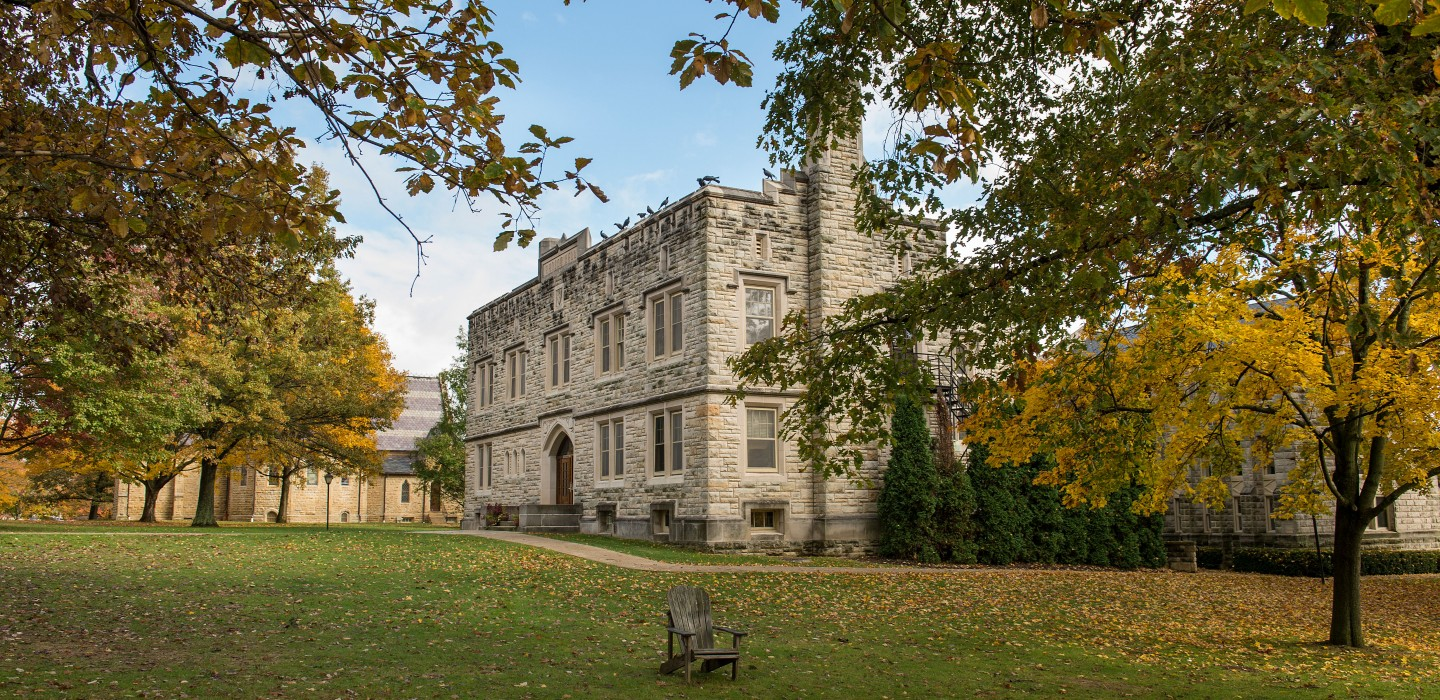 Ransom Hall, Kenyon College. Constructed in 1912 as the Alumni Library, Ransom Hall was renamed in 1962 to honor John Crowe Ransom, long-time faculty member, poet, critic, and founding editor of The Kenyon Review. "A murder of crows", sculpted by artist Peter Woytuk, was installed along the southern roofline in 1990.